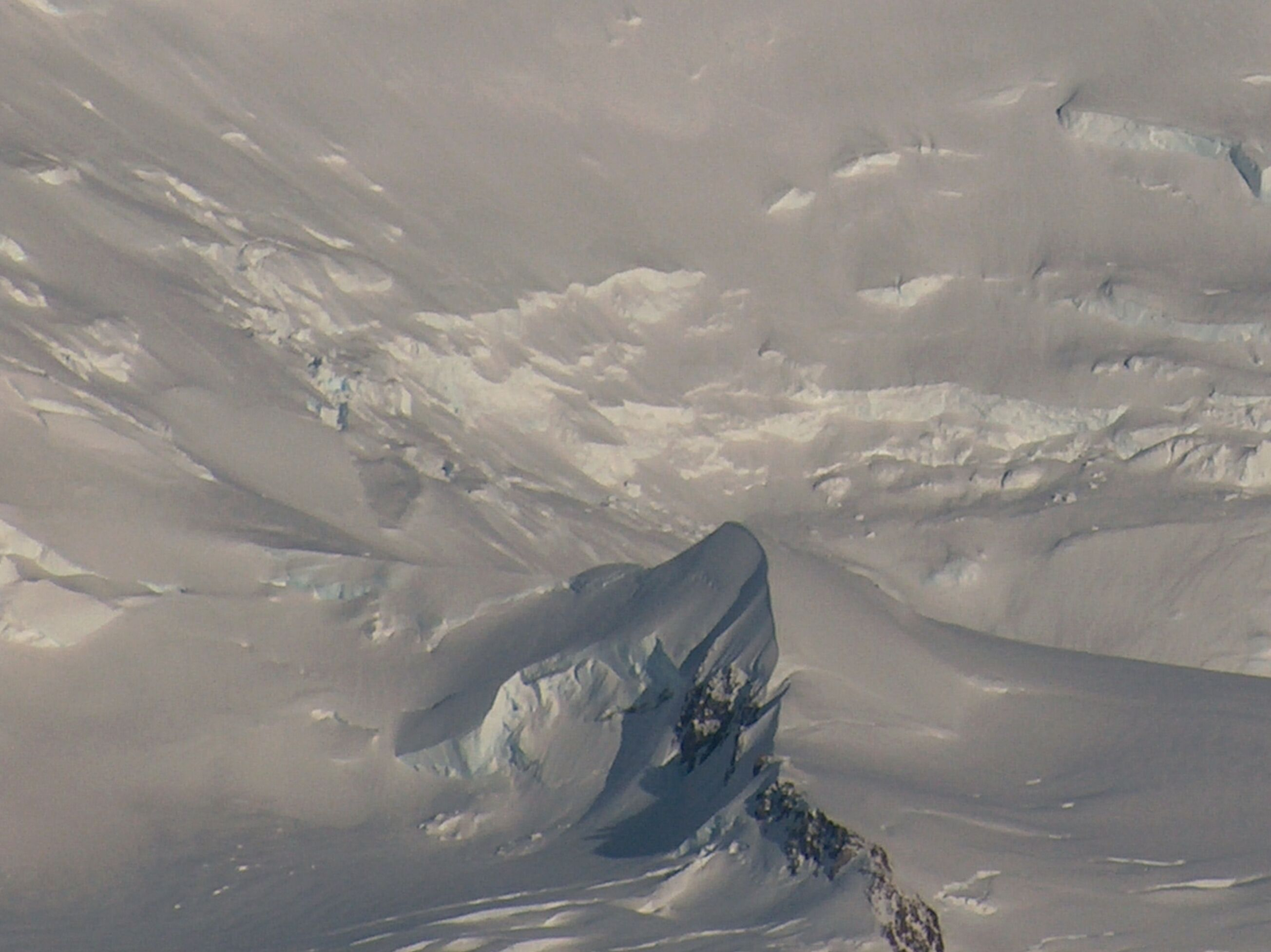 A view of Klisura Peak in east Livingston Island. source: Lyubomir Ivanov